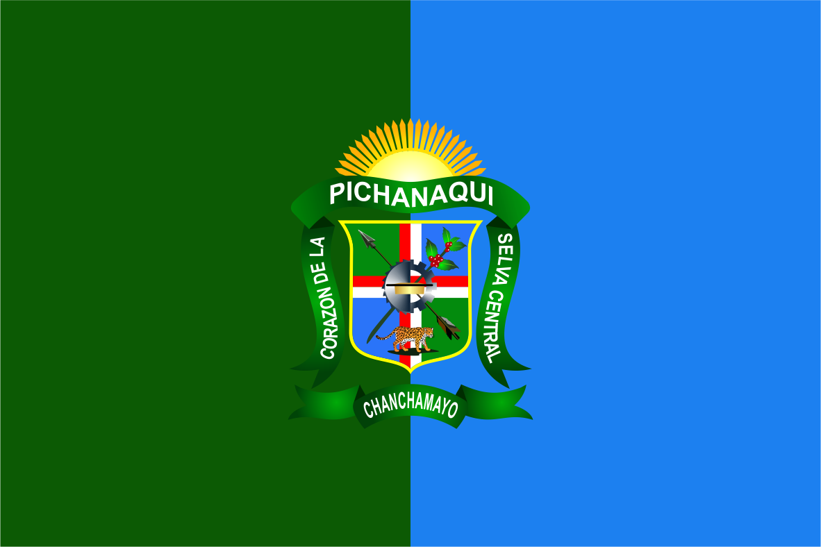 Pichanaki District - Province of Chanchamayo - Junin Region